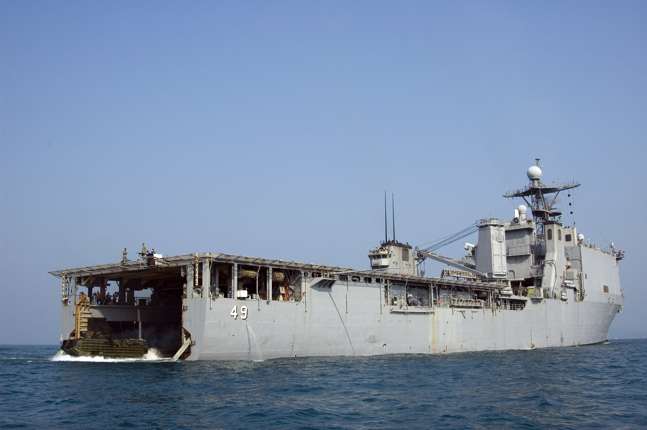 UTAPHAO, Thailand (Feb. 13, 2009) An amphibious assault vehicle assigned to the 31st Marine Expeditionary Unit (MEU) launches from the well-deck of the amphibious dock landing ship USS Harpers Ferry (LSD 49) during Exercise Cobra Gold 2009. Harpers Ferry and the 31st MEU are taking part in Exercise Cobra Gold, an annual Thailand and U.S. co-sponsored joint coalition multinational military exercise designed to train a Thai, U.S. and Singaporean Coalition Task Force. The exercise will also include humanitarian civic action projects with participating nations from Indonesia, Japan, Singapore, Thailand and the U.S. (U.S. Navy photo by Mass Communication Specialist 2nd Class Matthew R. White/Released)